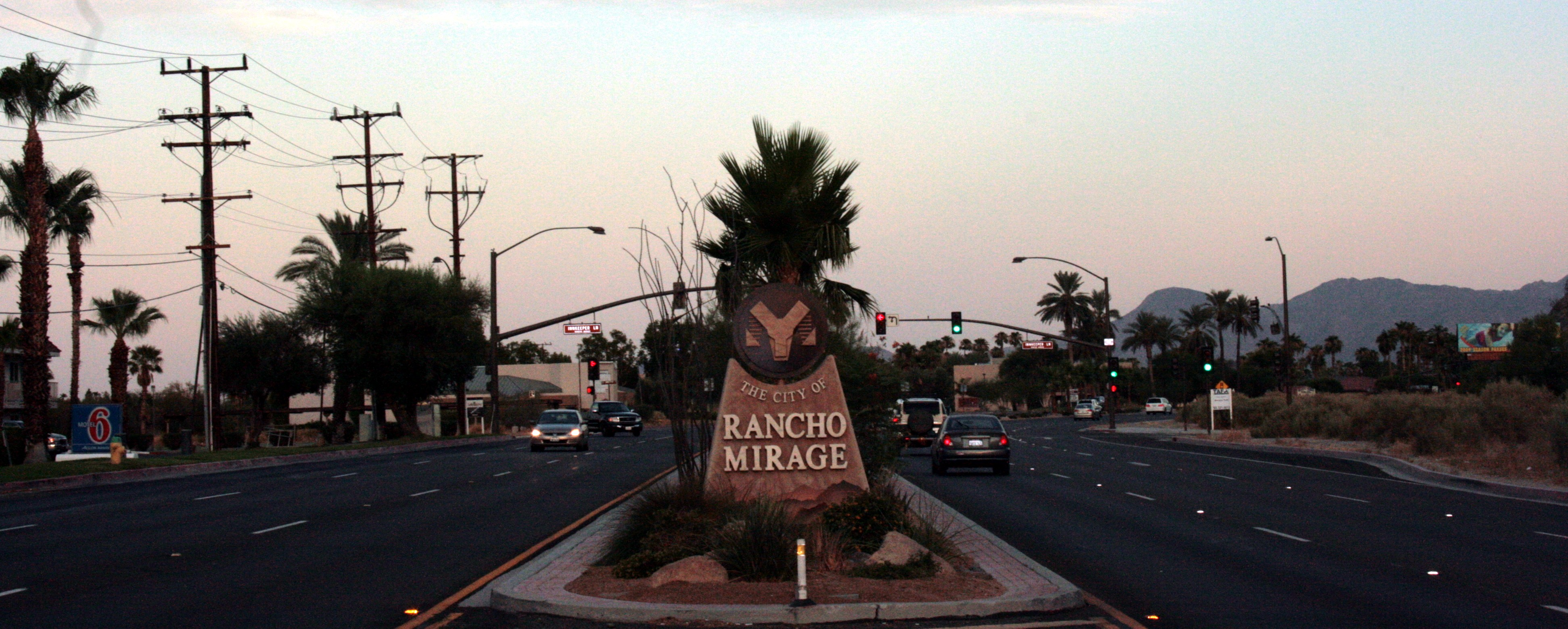 I took this picture from a public street